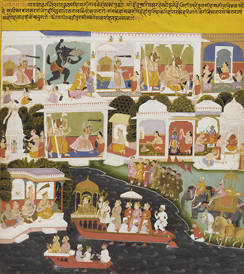 A Prince Visits the Poet Tulsidas ca. 1700-1710 Sisodia dynasty Opaque watercolor and gold on paper H: 49.2 W: 44.6 cm Udaipur, Mewar, India Purchase F1986.13